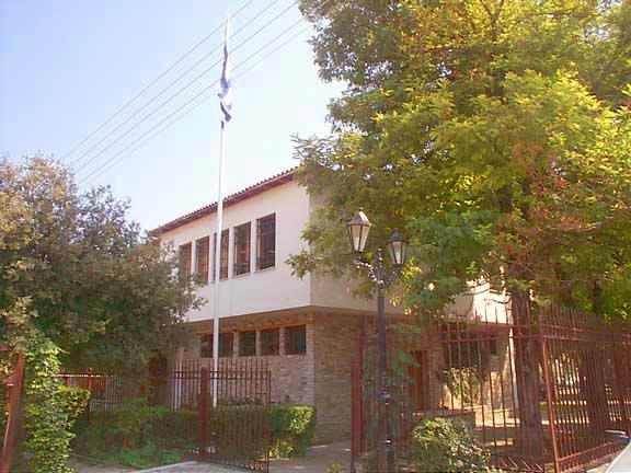 Outside View from Another Side, image from the Archaeological Museum, Dion, Central Macedonia, Greece